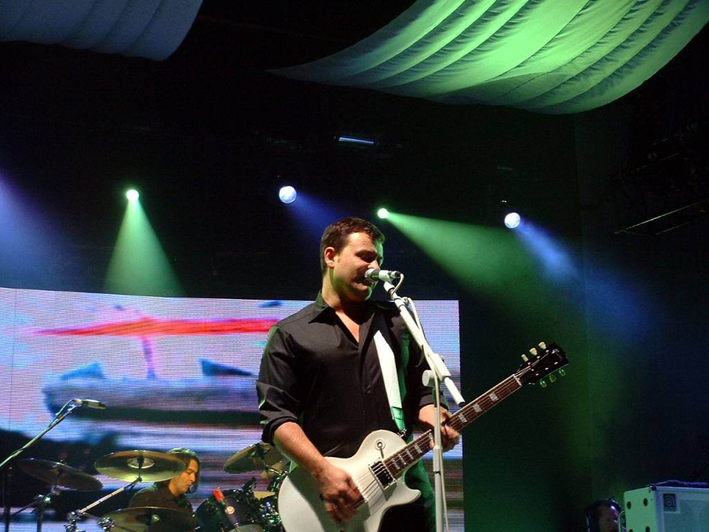 Manic Street Preachers live in Brighton